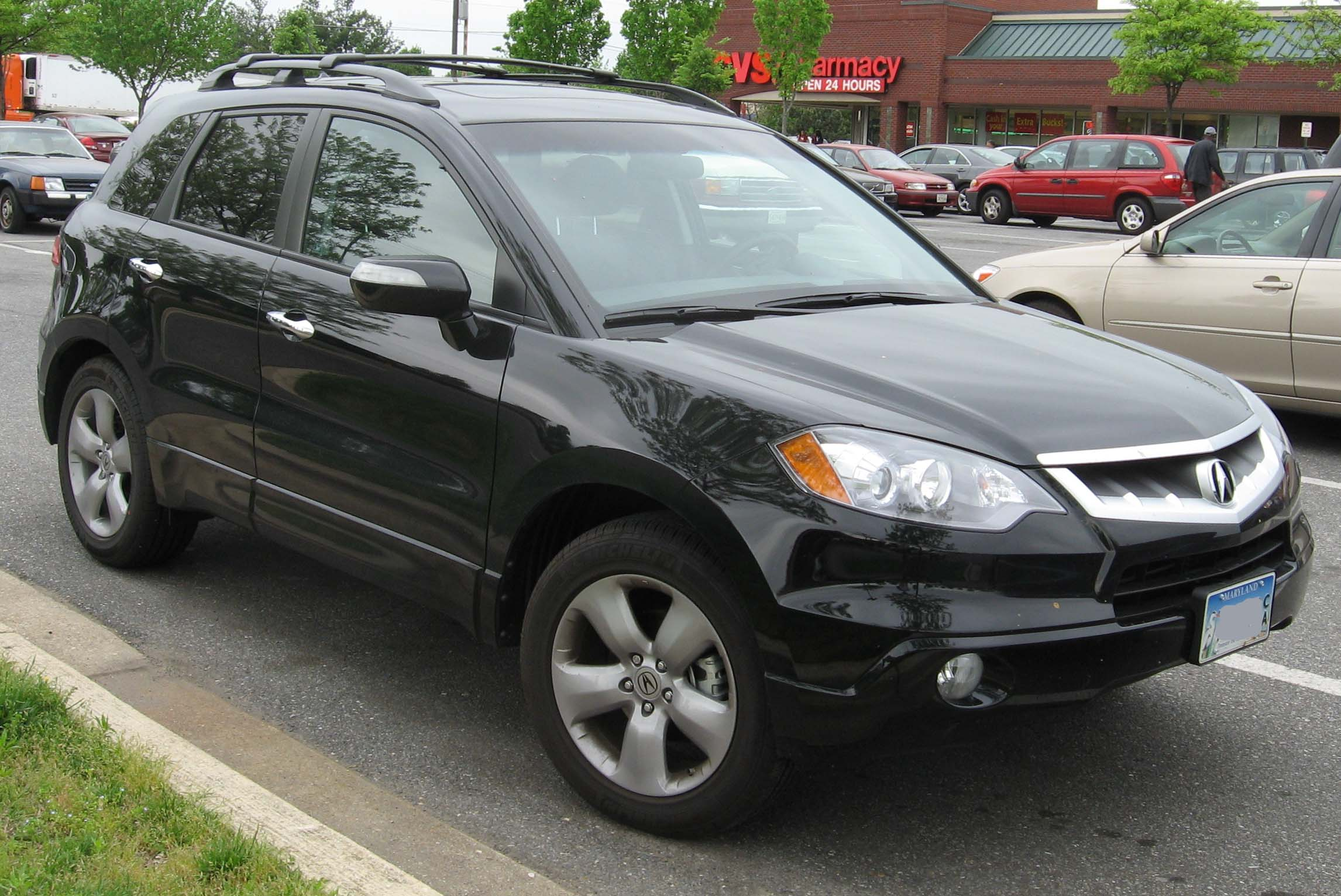 2007 Acura RDX photographed in USA.